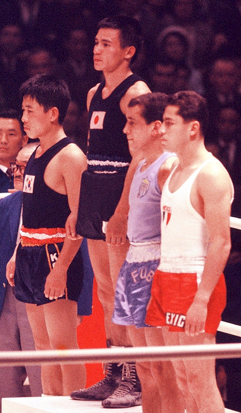 Gold Medalist Takao Sakurai (3rd R) of Japan, Silver Medalist Jeong Sin-Jo (4th R) of South Korea, Bronze Medalists Washington Rodriguez (2nd R) of Argentina and Juan Fabila (1st R) of Mexico on the podium at the Boxing Bantamweight medal ceremony during the Tokyo Olympics at Korakuen Ice Palace on October 23, 1964 in Tokyo, Japan.